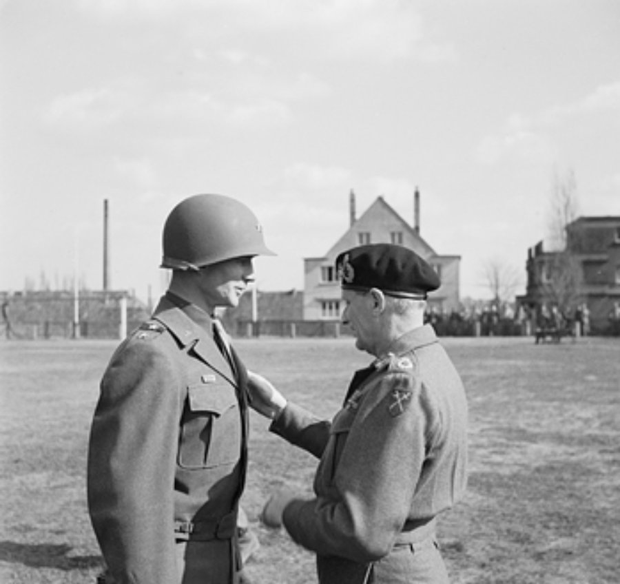 OPERATION 'MARKET GARDEN' (THE BATTLE FOR ARNHEM): 17 - 25 SEPTEMBER 1944: Personalities: Major-General James Gavin, Commander of the 82nd (US) Airborne Division receiving the DSO from Field Marshal Sir Bernard Montgomery in Mönchengladbach.